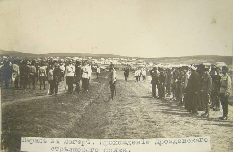 Gallipoli military camp of Russian Army. Ceremonial march of Drozdovsky Regiment. Before 1924